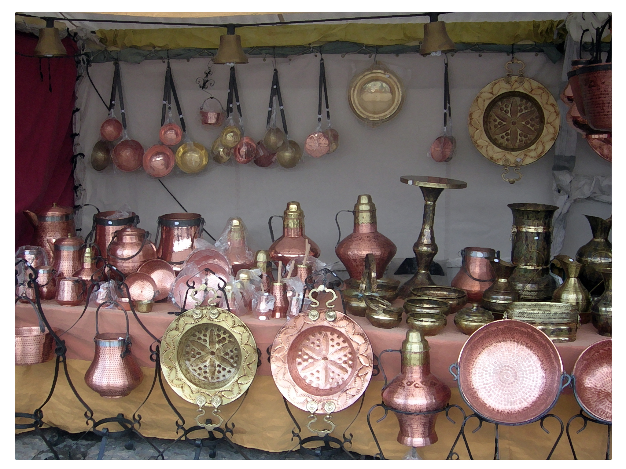 Copper crafts in Valdemoro (Community of Madrid, Spain).